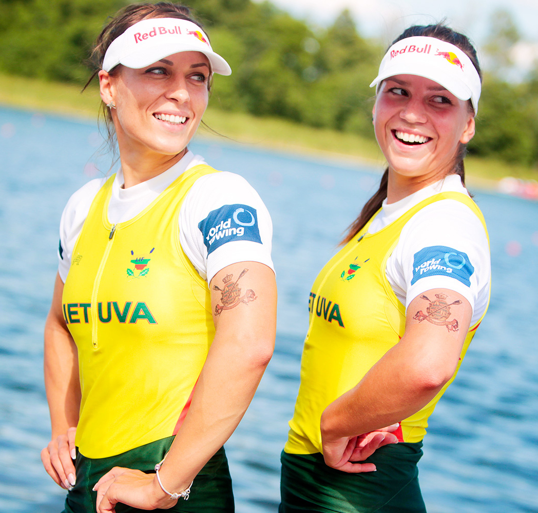 Lithuanian rowers Donata Vistartaite and Milda Valciukaite